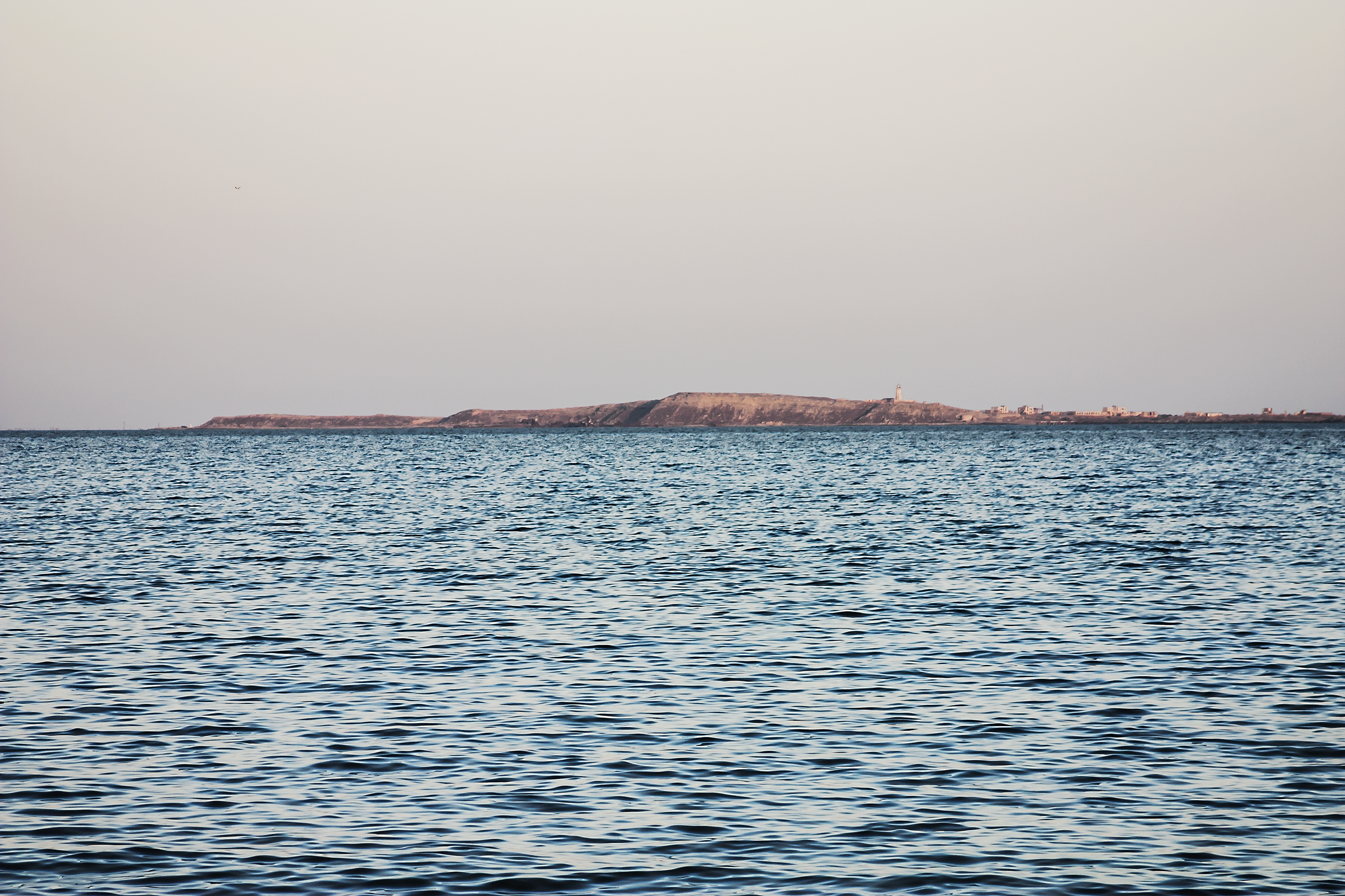 Caspian Sea Island, located in the bay of Baku, Boyuk Zira (Nargen)